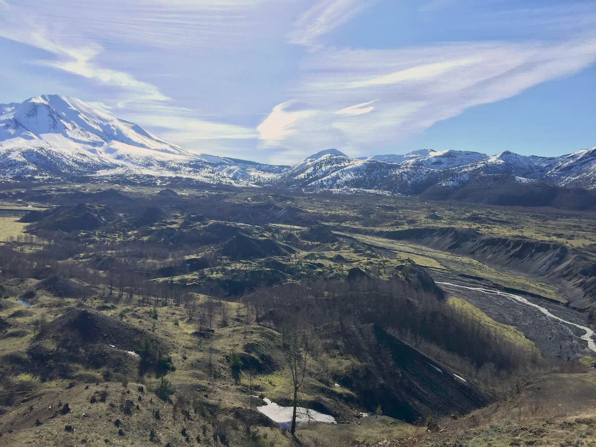 A picture of Mount St. Helens